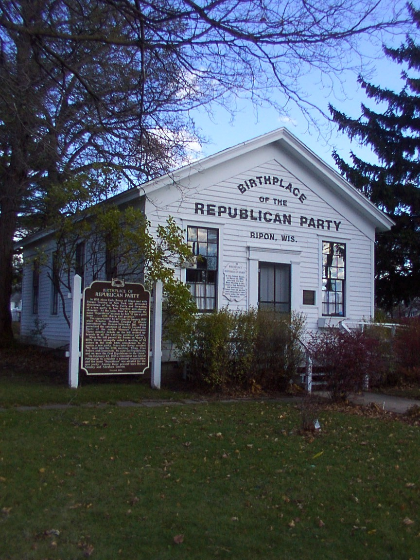 The Schoolhouse in Ripon, claimed birthplace of the U.S. Republican Party (i.e. the site of one of the first meetings of the general "anti-Nebraska" movement of 1854 to use the name "Republican").